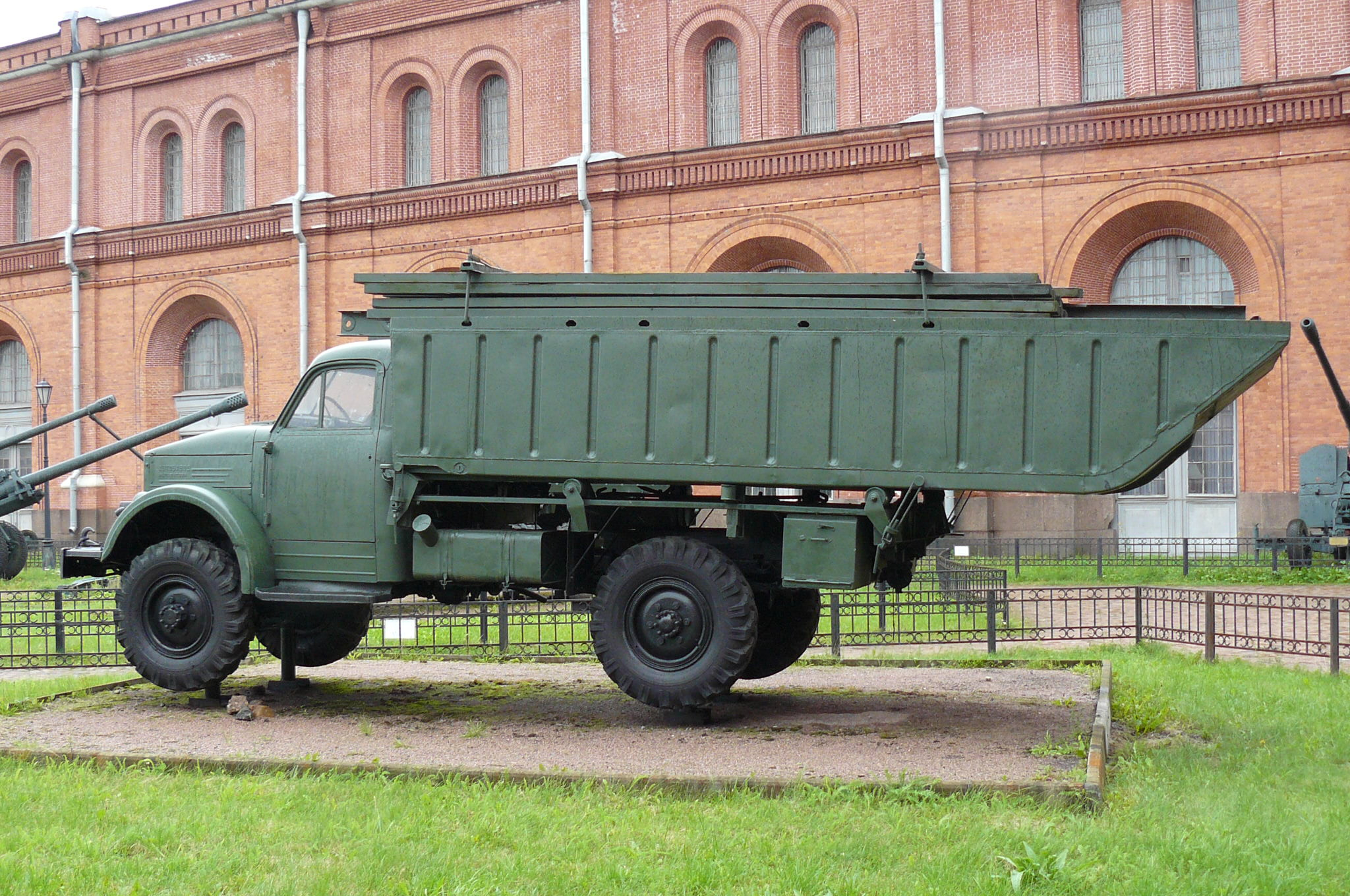 Gaz-63 with ponton seen at artillery museum St. Petersburg, September 2012